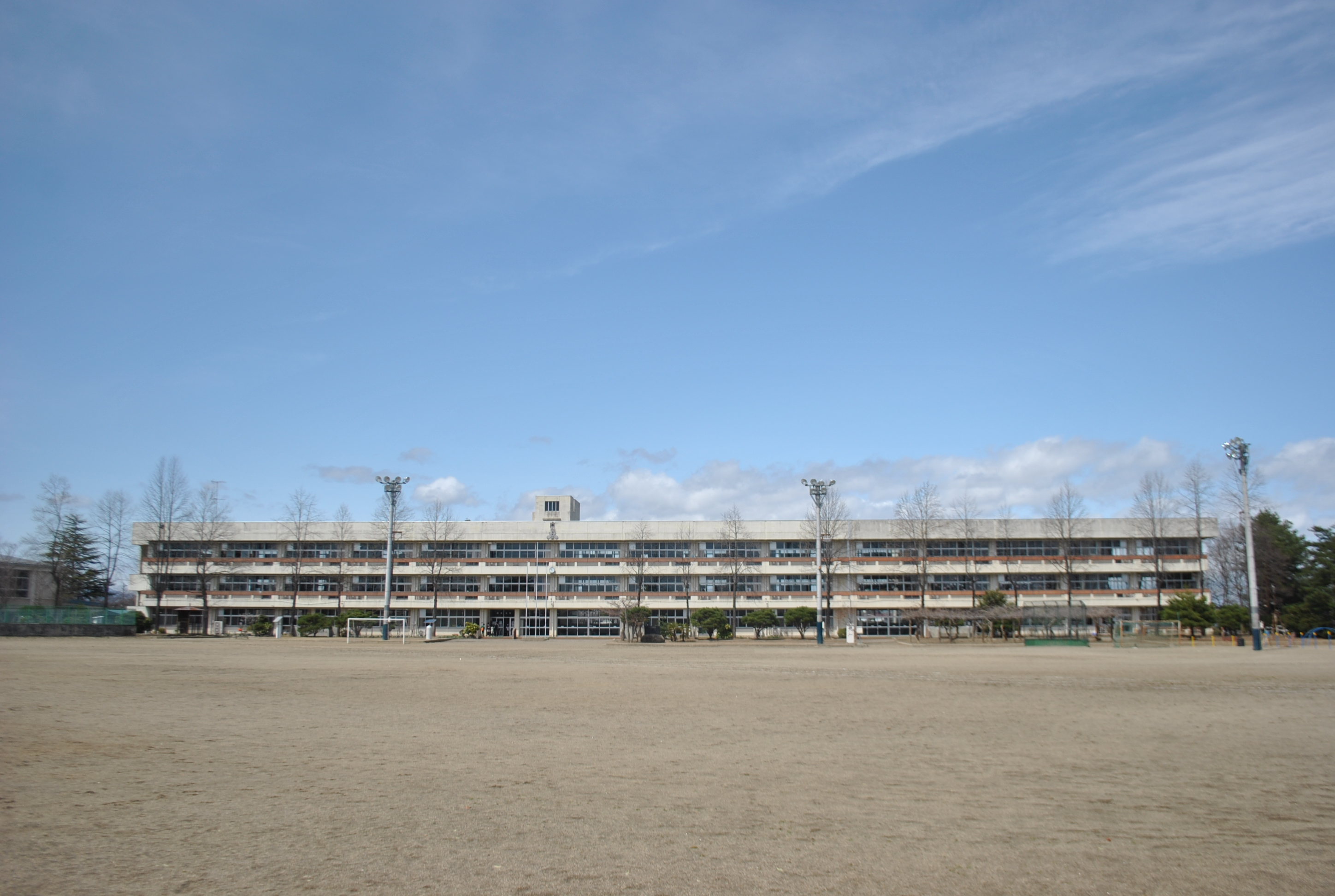 Zengo Elementary School in Yabuki Town, Fukushima Pref., Japan.